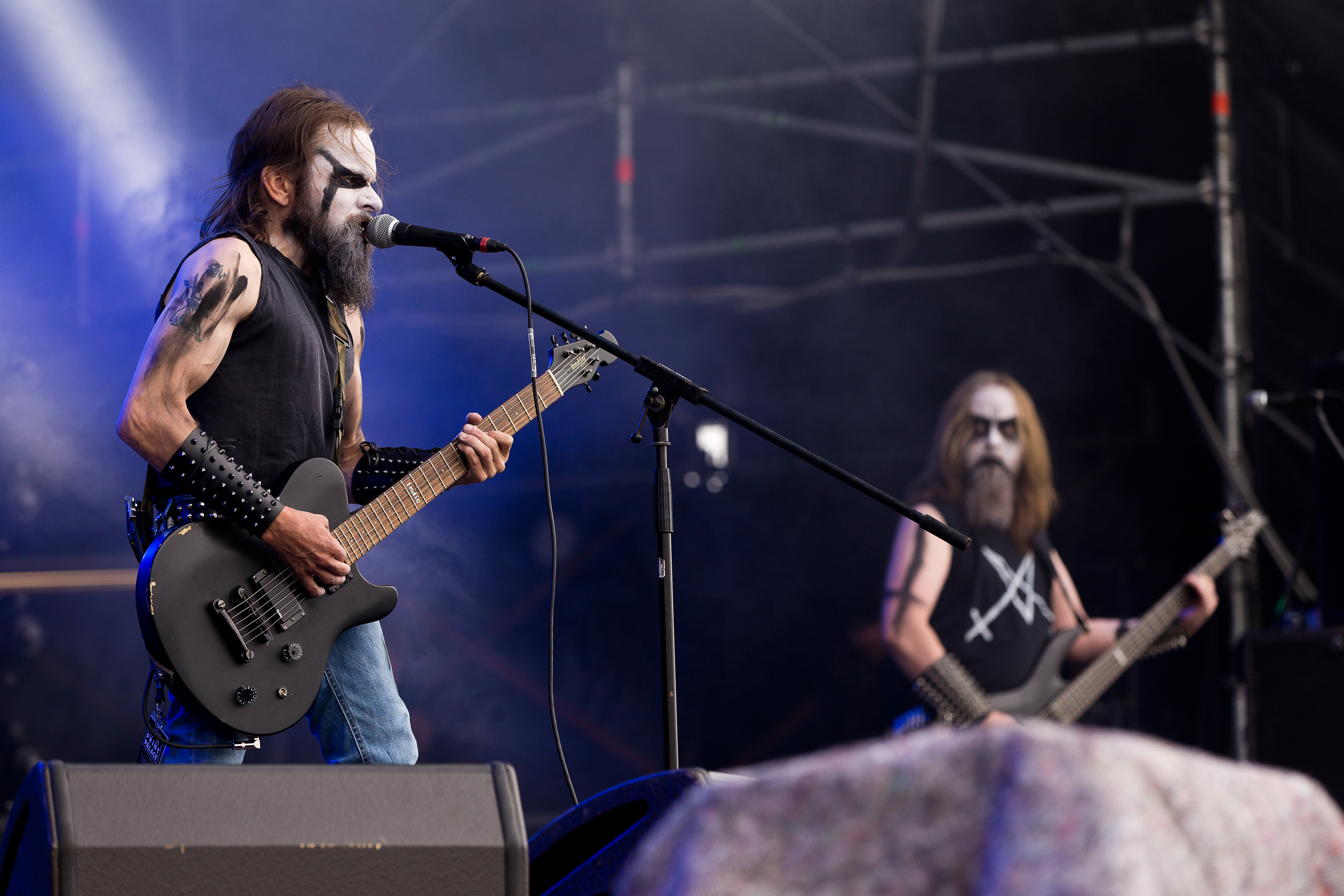 The Norwegian black metal band Isvind at the Party.San Metal Open Air 2016 in Obermehler-Schlotheim/Germany